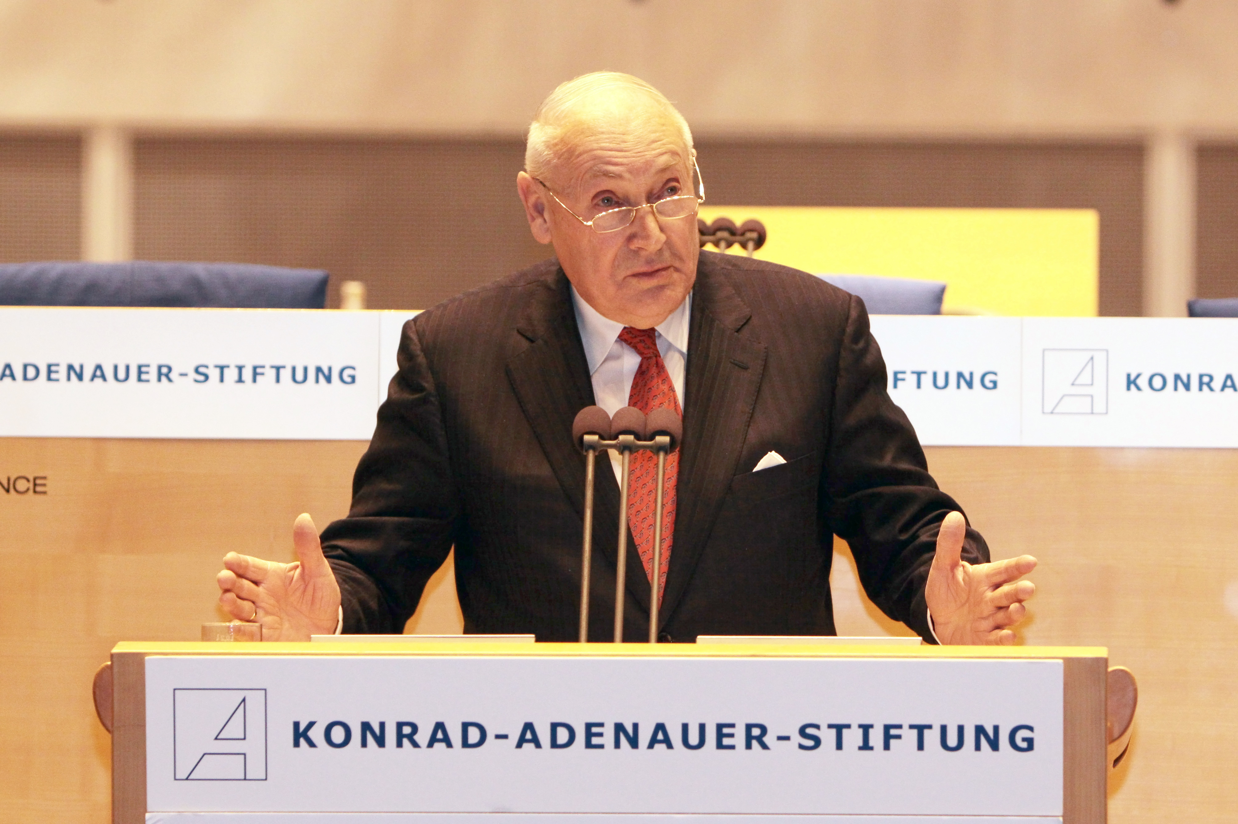 Prof. Dr. Hans-Peter Schwarz at Wasserwerkgespräche 2008